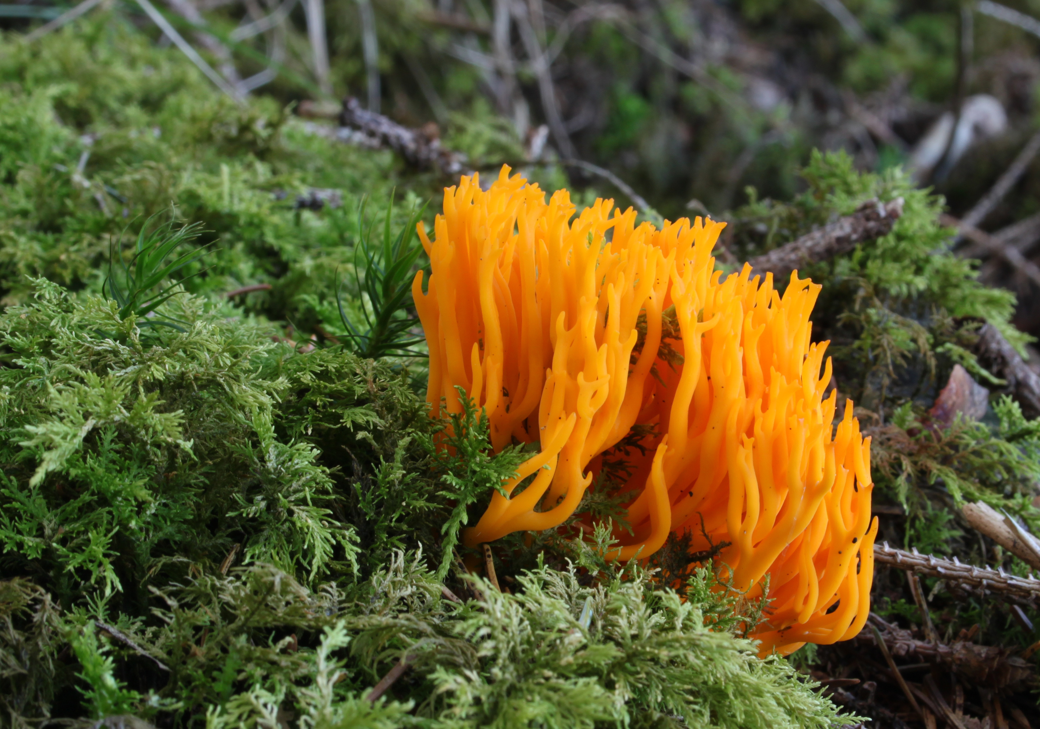 Yellow Stags-horn Fungus, Calocera viscosa, Family: Dacrymycetaceae, Location: Southern Germany, Baden-Württemberg, Ulm.